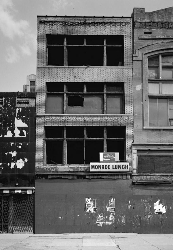 104-106 Monroe Street (Commercial Building)] — Detroit, Michigan. Historic American Buildings Survey—HABS image (1989).